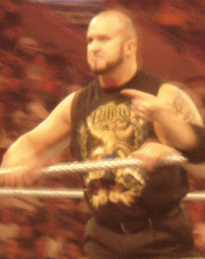 A picture I took at July 22, 2008 SD